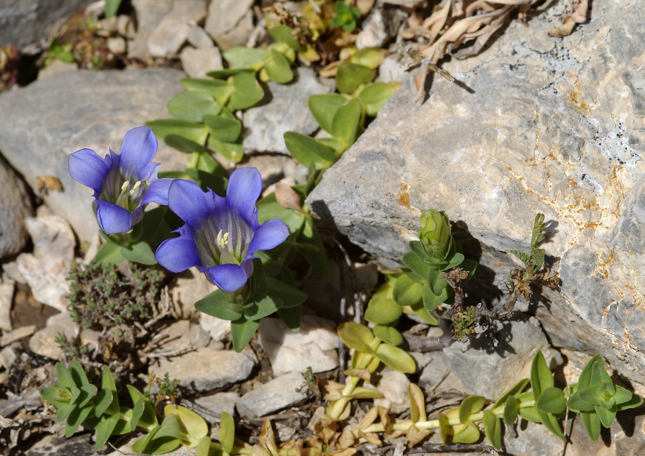 Flowers of beautiful gentian (Gentiana boissieri), endemic gentian species to Eastern Mediterranean Sea Region of Turkey. Bolkar Mountains, Çamlıyayla - Mersin, Turkey.